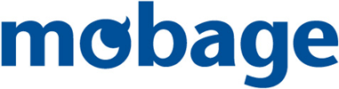 Mobage Logo